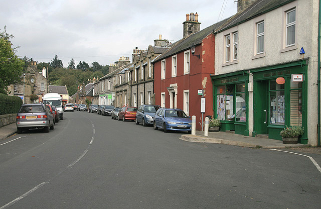 Main Street, West Linton, near to West Linton, Scottish Borders, Great Britain. A village street full of character with the post office on the right. At the edge of the square. Main Street is split between 2 squares with the road wandering back and forth over the grid line a few times.